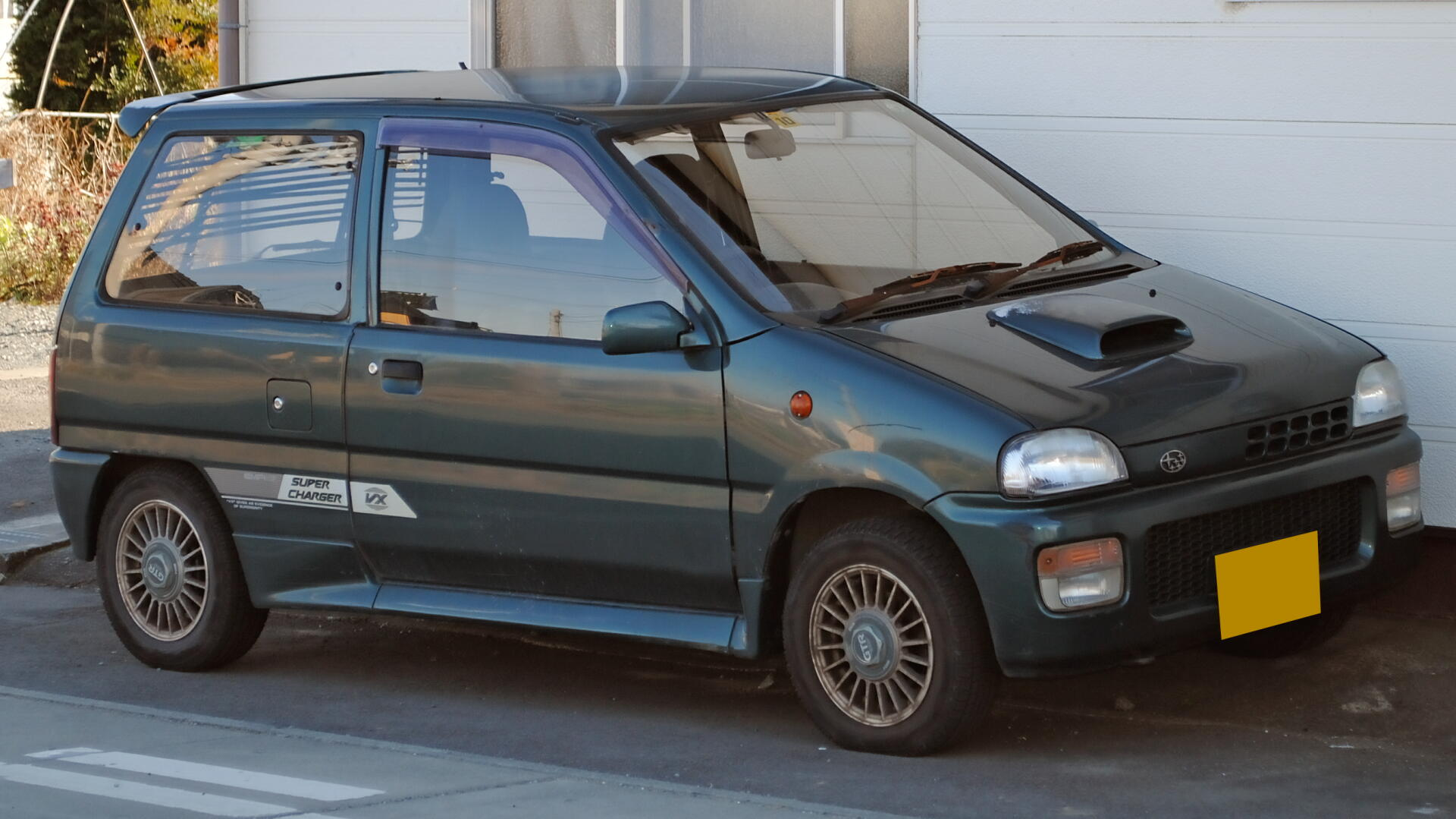 Subaru Rex VX Super Charger, third generation (KH3)